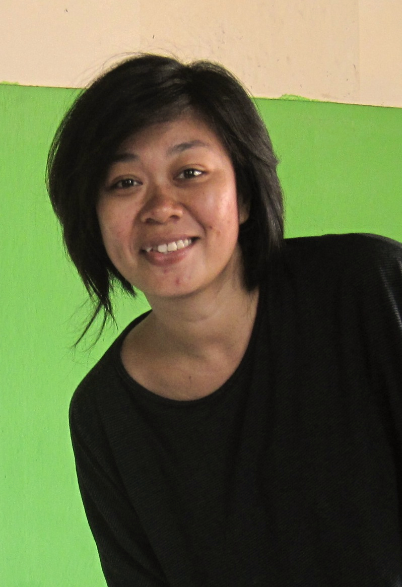 Picture of documentary filmmaker Ucu Agustin